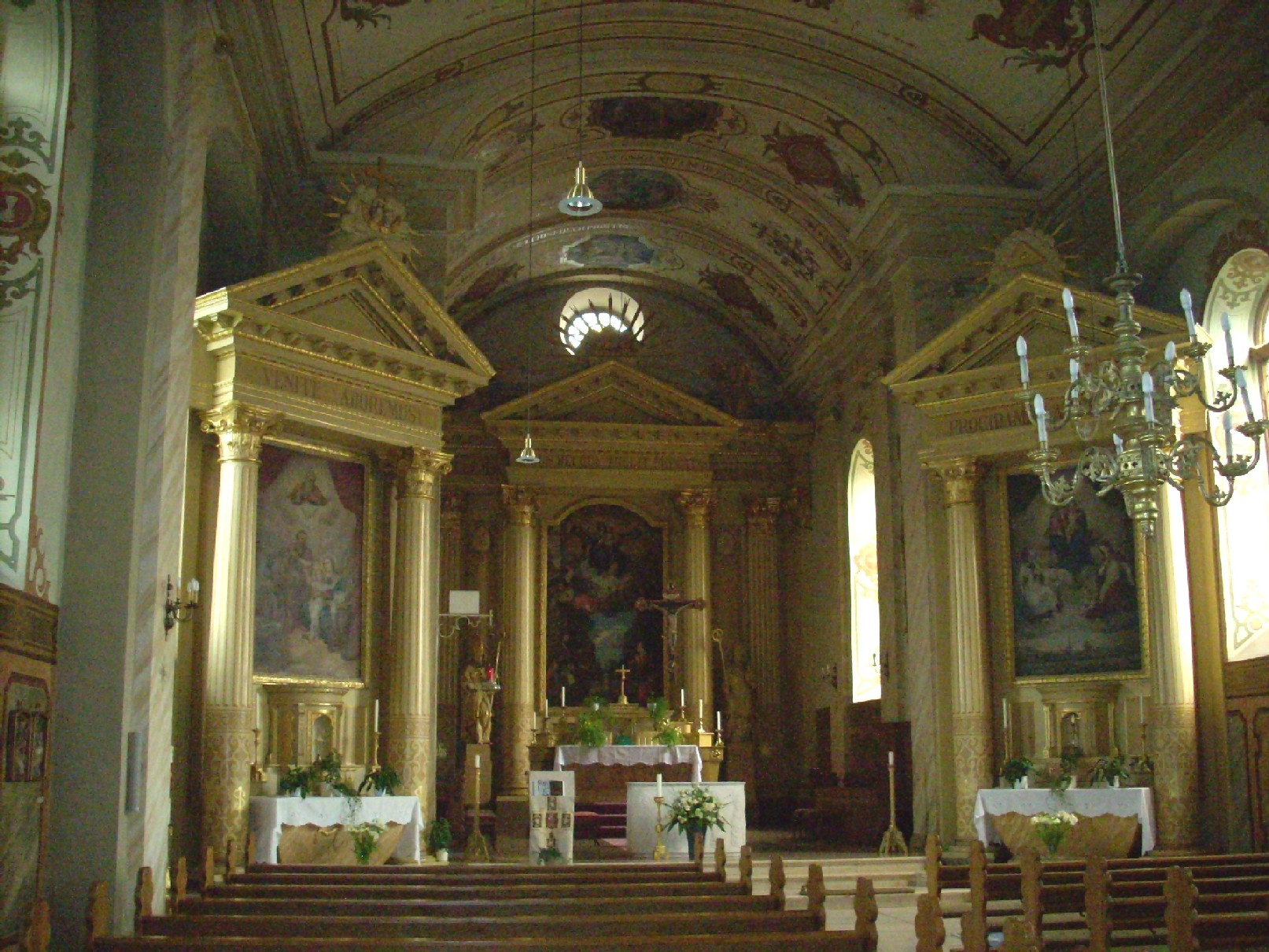 St. Martinus Catholic Church, Borsum